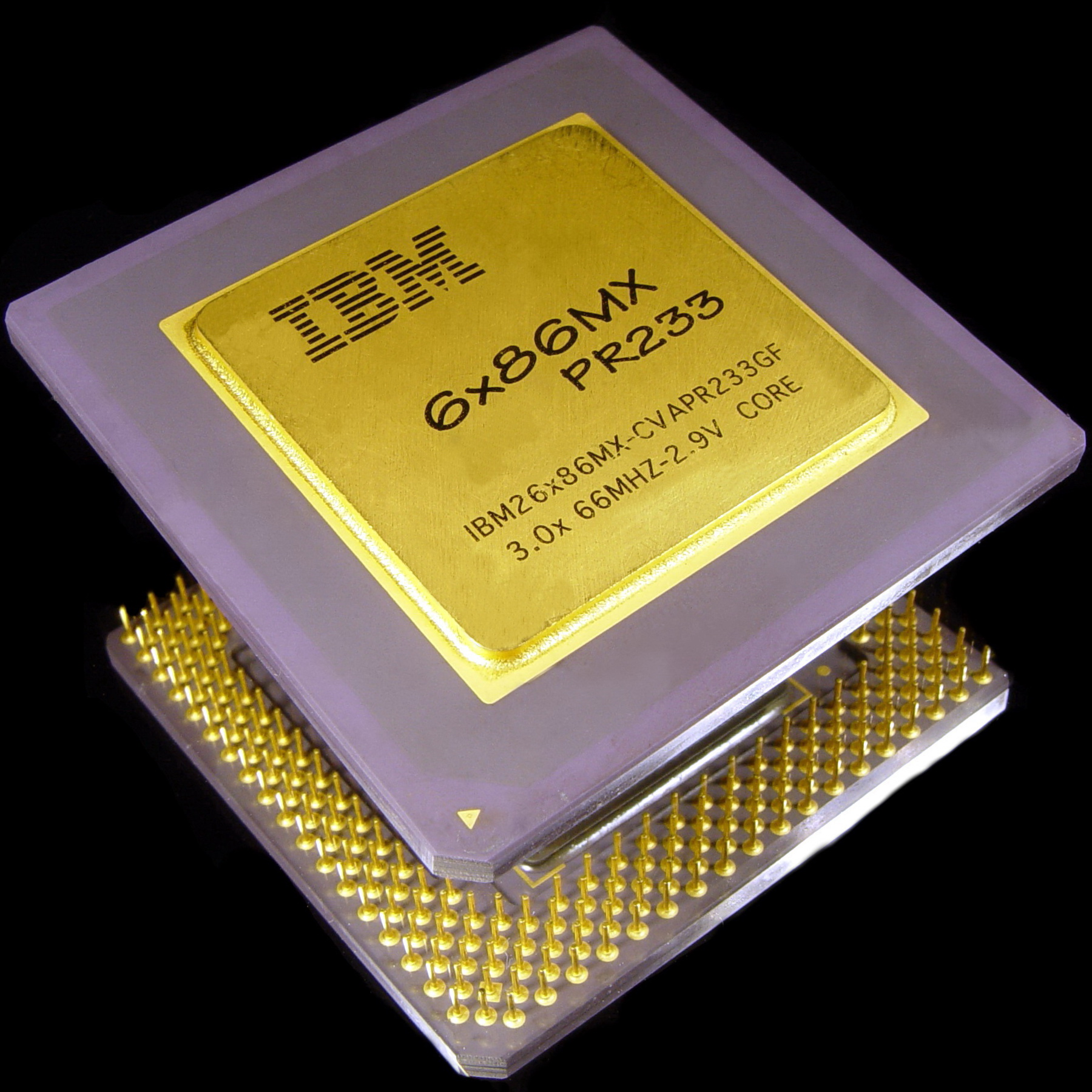 IBM 6x86MX PR233 Architecture x86 Core frequency 198 MHz Bus frequency 66 MHz Core/Bus ratio 3x Manufacturing process 0.35 µm The successor to the 6x86 and 6x86L is the 6x86MX (M2), intended to compete with AMD's K6 and Intel's Pentium MMX. The 6x86MX supports the MMX extension and also features several other improvements over the original 6x86 chip. The internal cache was increased from 16 to 64 KB, a 256 byte additional pre-cache was added to help improve efficiency in how the regular level 1 cache is operated, the Branch Prediction was improved and the internals of the chip have been optimized for 32-bit operation.